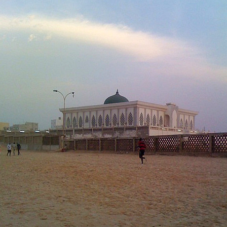 Posted by Le mauselee de mame limamoulaye a yoff plage #Senegal #Dakar #plage #plage #layene: License on Flickr (2012-01-30): CC-BY-2.0 Cropped from original